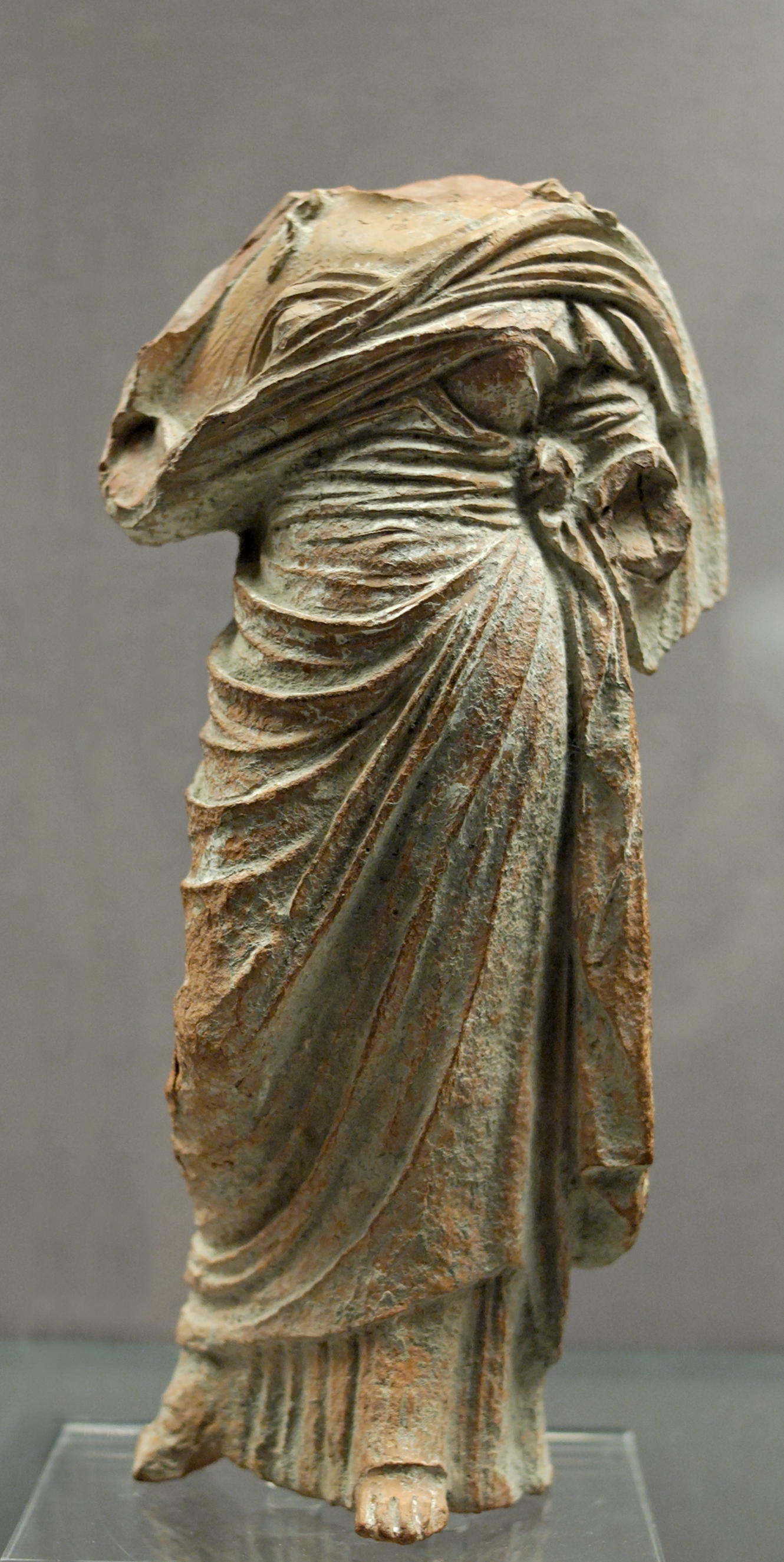 Female figure wearing a chiton and a himation, perhaps Persephone.